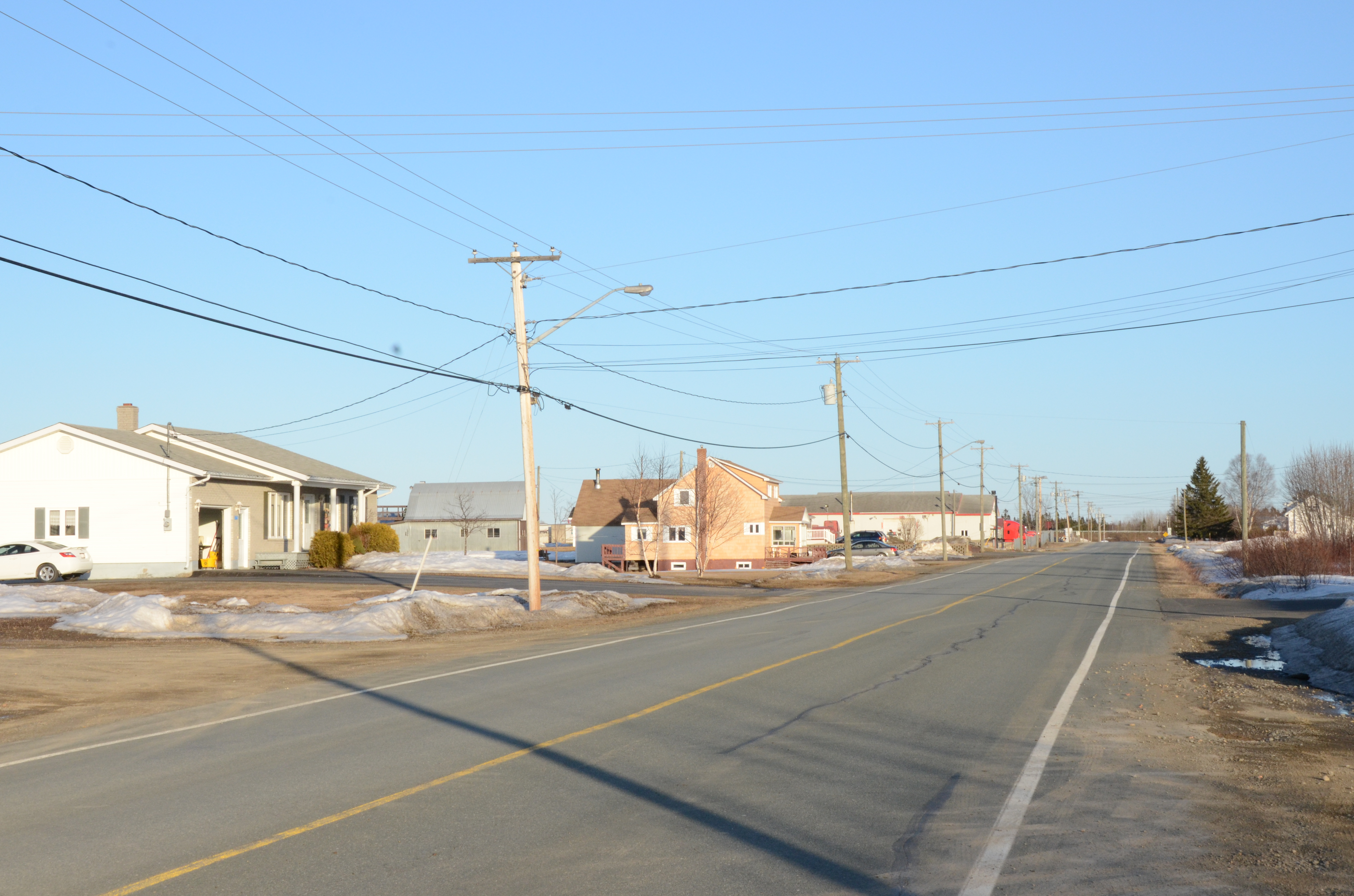 Picture from the route 280, looking eastward, on L'Anse Street in Eel River Crossing.